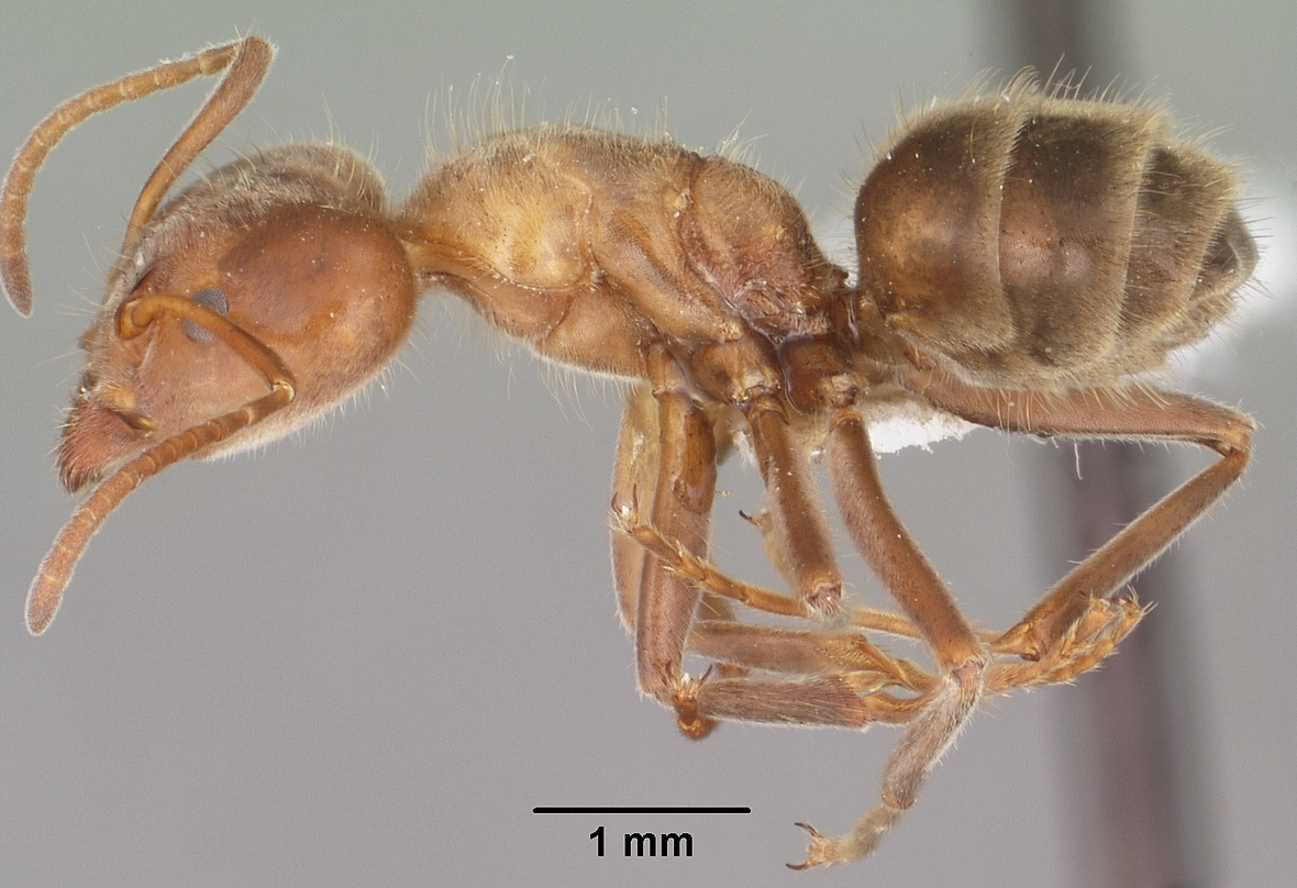 Profile view of ant Liometopum apiculatum specimen casent0102758.